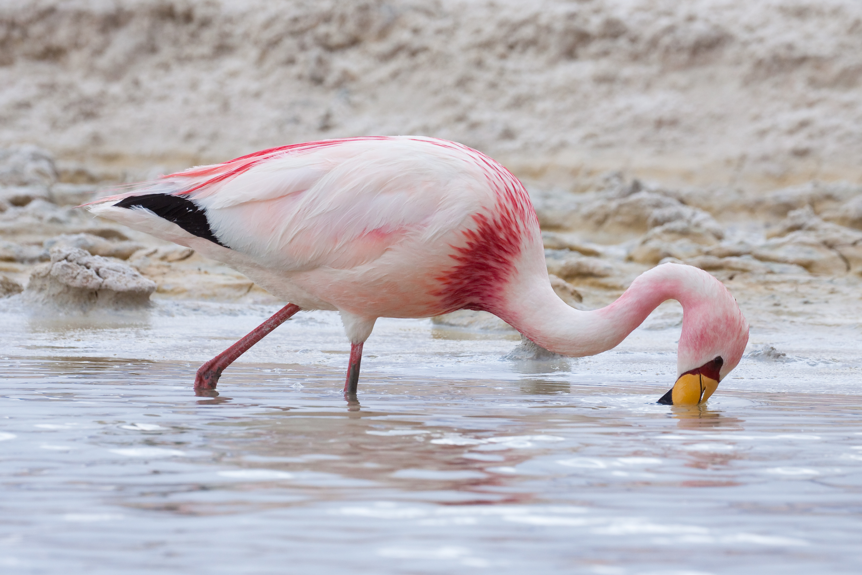 Phoenicoparrus jamesi, a James's Flamingo at Laguna Hedionda in Bolivia.